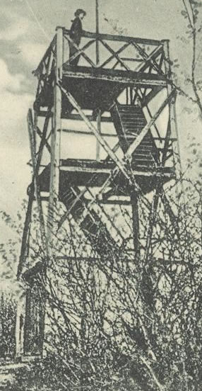 Watchtower Ottoshöhe (First tower, built 1895) nearby Melle, Germany